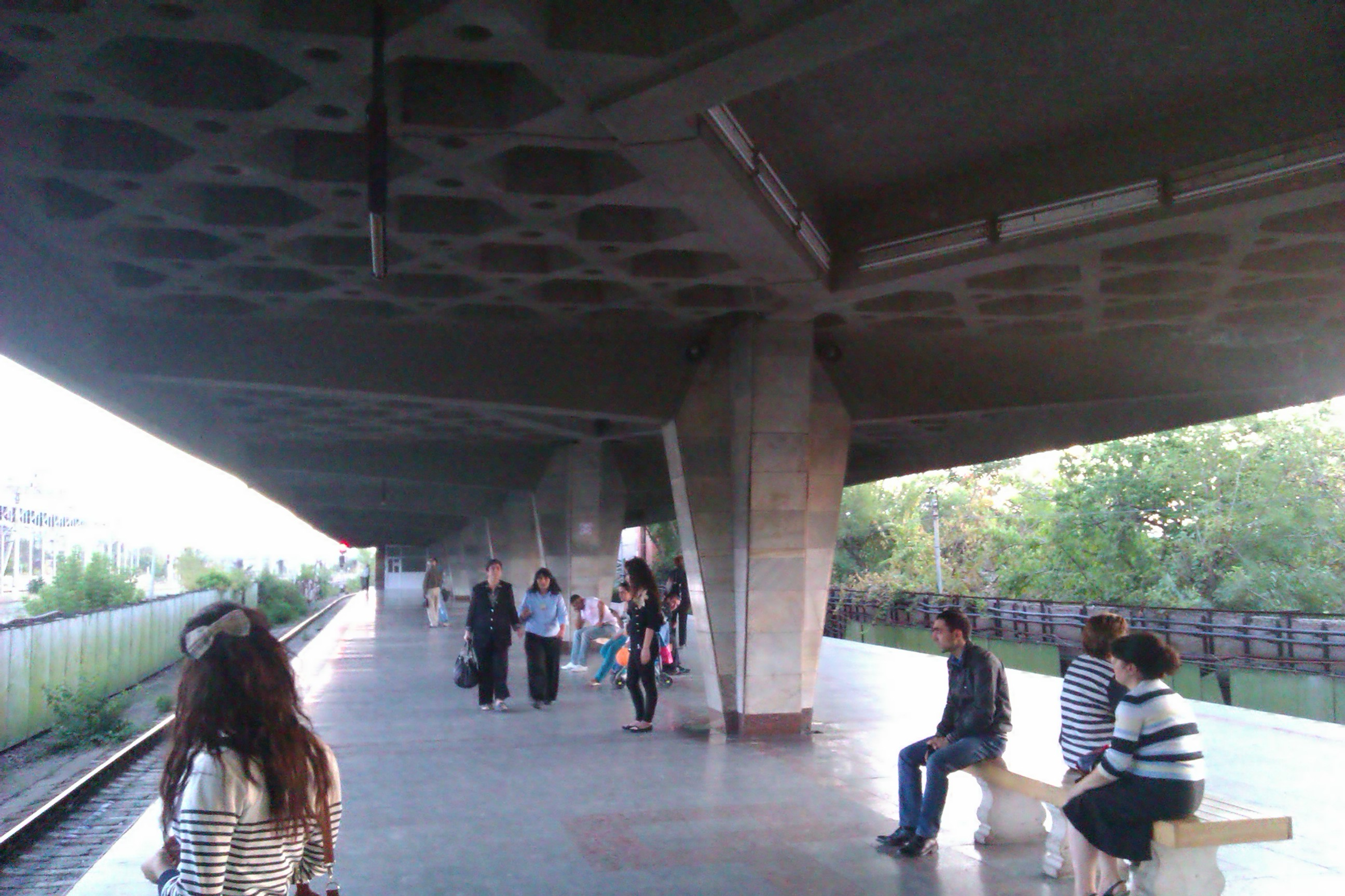 David of Sasun metro station, Yerevan, Armenia.